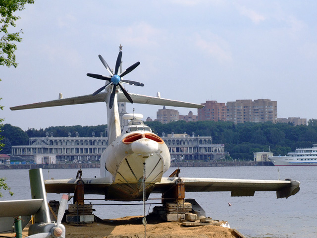 A-90 Orlyonok (in the park "North Tushino")